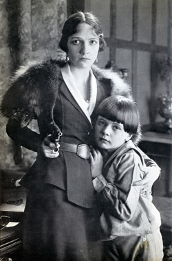 A still from the Miriam Cooper film The Woman and the Law by Raoul Walsh (1918). Taken before 1923, as she quit acting in 1924.